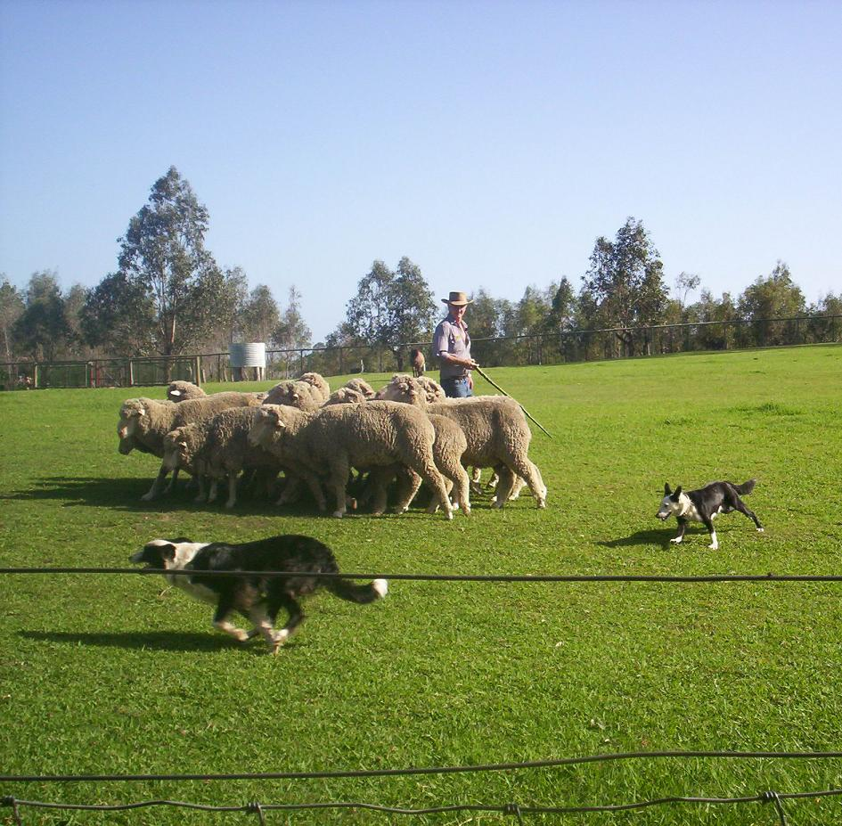 Border Collie sheepdogs mustering sheep in Queensland, Australia ( this photograph was taken by Figaro )